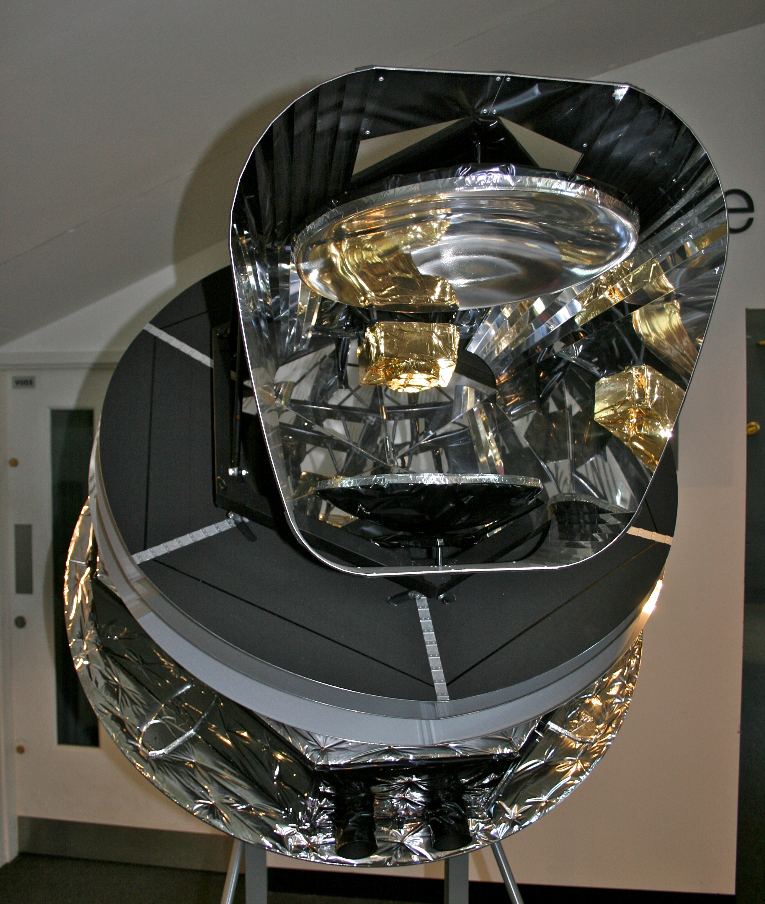 Model of the Planck Satellite. Photographed at the Royal Astronomical Society's National Annual Meeting 2009.